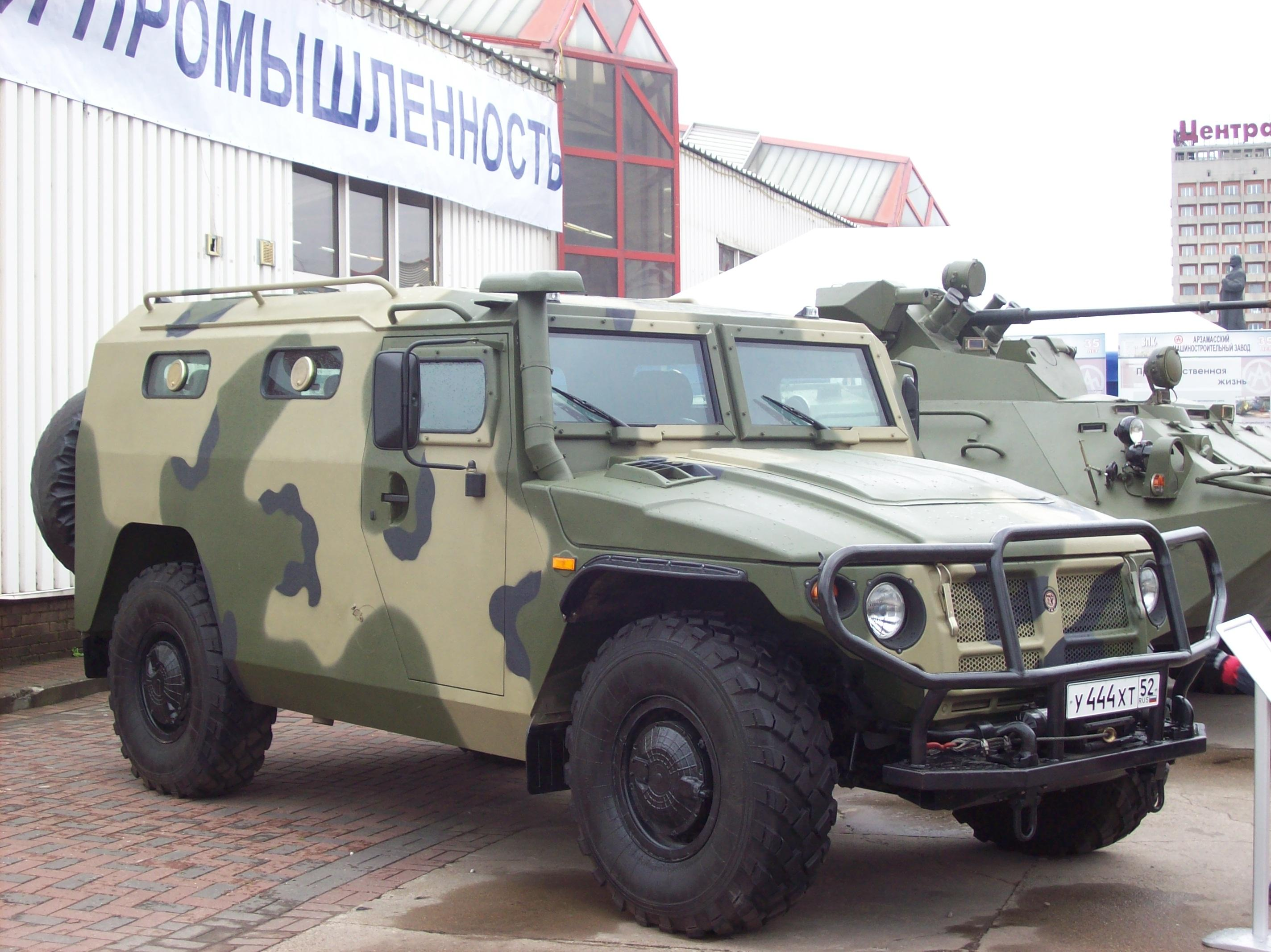 A police car Tiger GAZ-2330-36 (Полицейский автомобиль Тигр ГАЗ-2330-36)